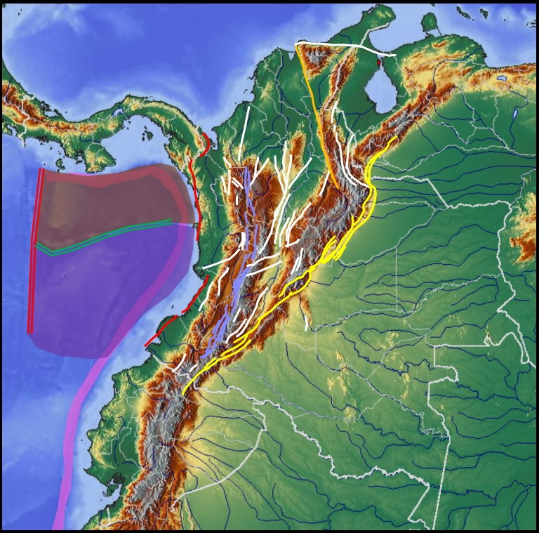 Tectonic situation of Pacific Colombia. Legend: Dark red - Coiba Plate Purple - Malpelo Plate Red double line - Panama Transform Fault Green double line - Coiba Transform Fault Pink thick line - Colombian Deep Trench Red single lines - from north to south Unguía Fault, Bahía Solano Fault, Naya-Micay Fault and Remolino-El Charco Fault Blue single lines - Romeral Fault System Yellow single lines - Eastern Frontal Fault System Orange single line - Bucaramanga-Santa Marta Fault White single lines - other major faults of Colombia Sources: Paris, Gabriel et al. (2000a) Database of Quaternary Faults and Folds in Colombia and its Offshore Regions, USGS, pp. 1–66 Retrieved on 6 June 2018. Paris, Gabriel et al. (2000b) Map of Quaternary Faults and Folds of Colombia and Its Offshore Regions, USGS, p. 1 Retrieved on 6 June 2018. Zhang, Tuo et al. (2017). "The Malpelo Plate Hypothesis and implications for nonclosure of the Cocos-Nazca-Pacific plate motion circuit". Geophysical Research Letters 44: 1–6. Retrieved on 2018-06-06.